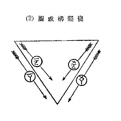 Chinese vowel diagram 3